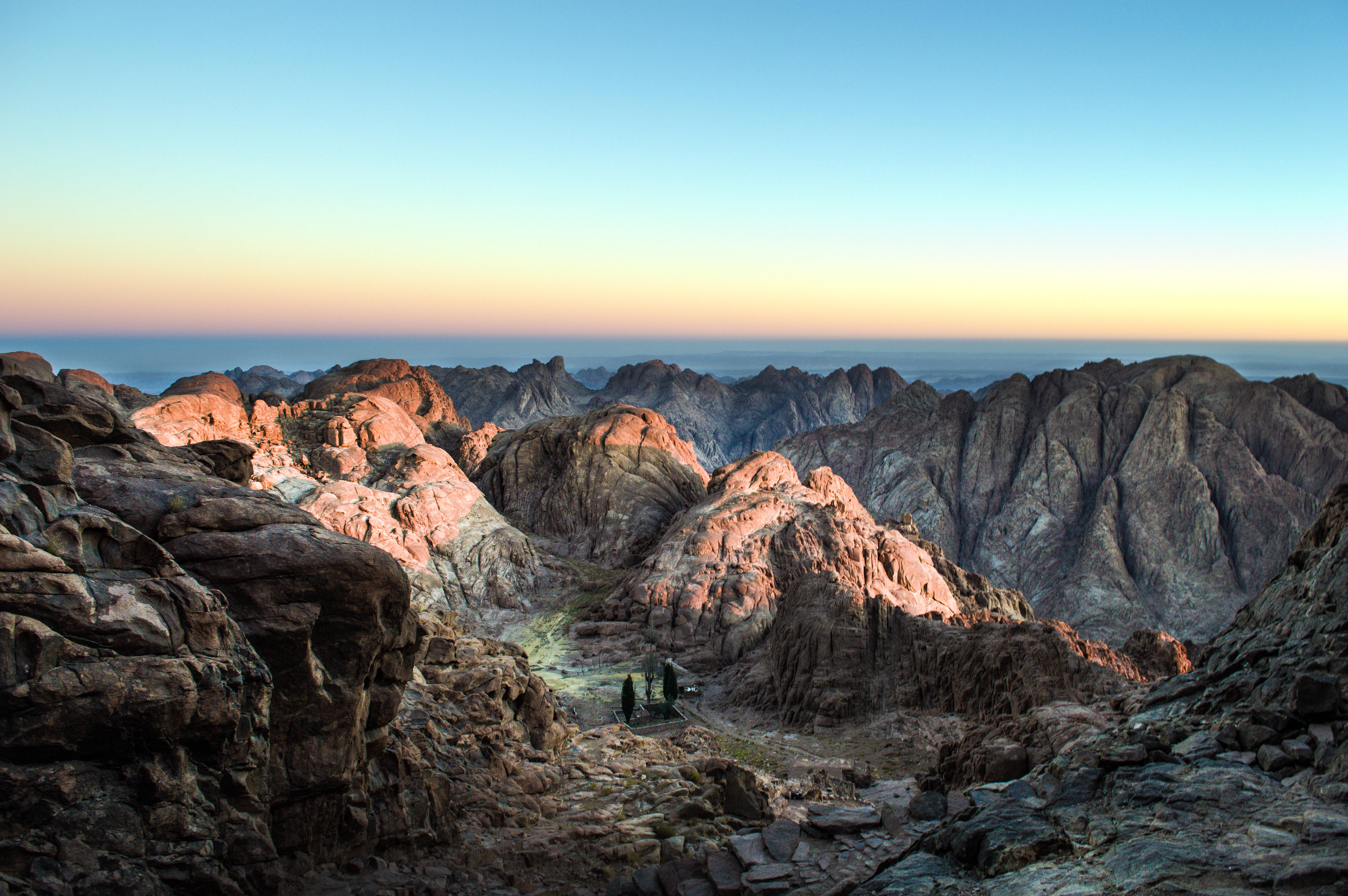 St. Catherine in South Sinai Egypt